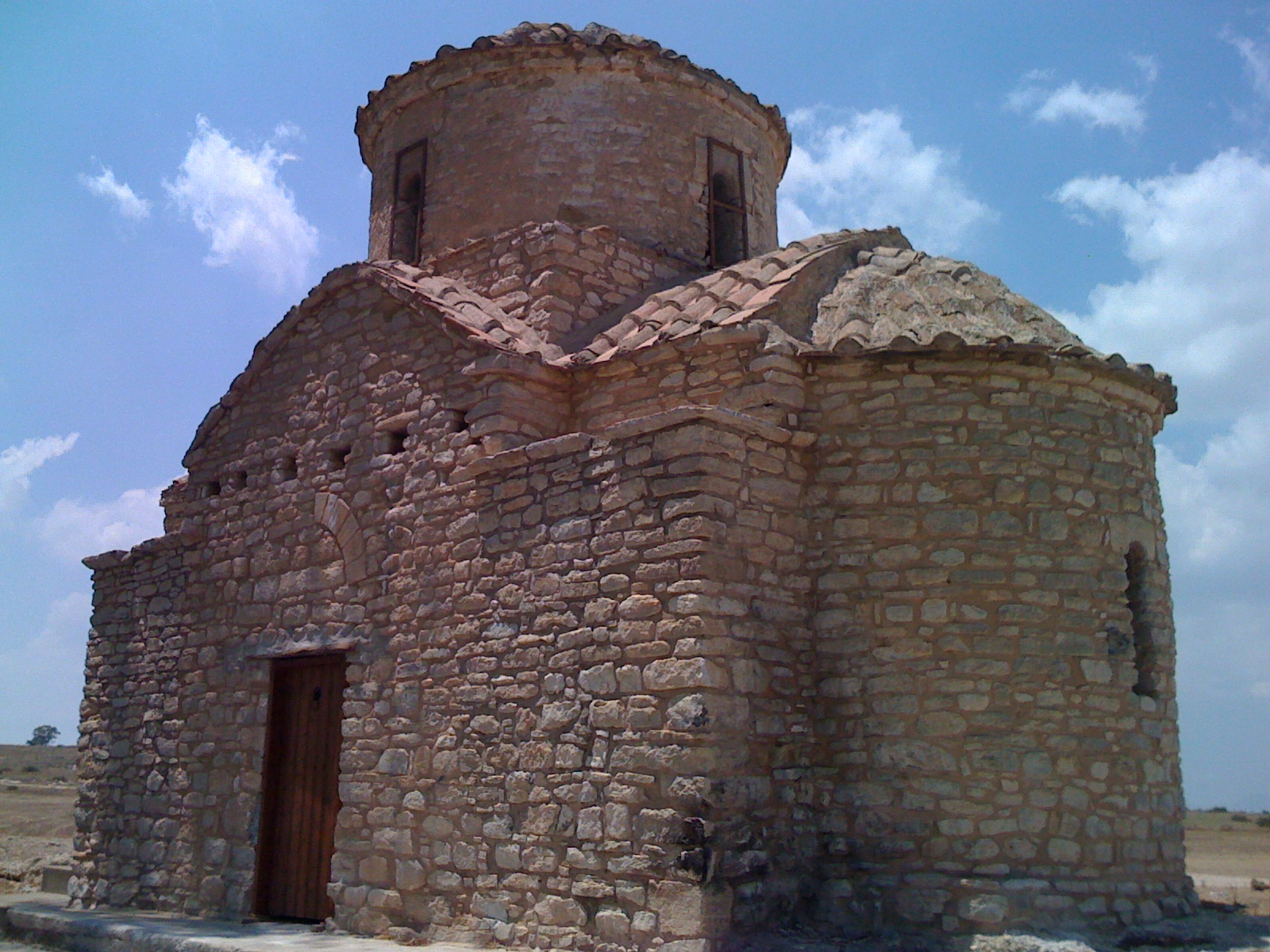 The ancient church of St. Evphemianos in Lysi, Cyprus. Picture taken in June 2010